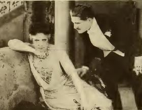 Still from the American drama film The Riddle:Woman (1920) with Geraldine Farrar and William P. Carleton, on page 52 of the February 1921 Photoplay magazine. The film is now considered to be lost.